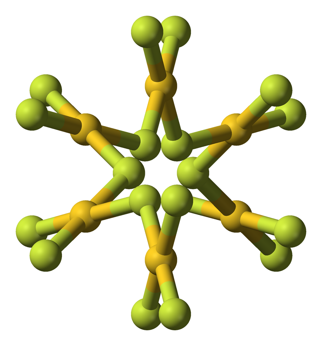 Ball-and-stick model of a spiral in the crystal structure of gold trifluoride, AuF3. X-ray crystallographic data from F. W. B. Einstein, P. R. Rao, James Trotter and Neil Bartlett (1967). "The crystal structure of gold trifluoride". Journal of the Chemical Society A: Inorganic, Physical, Theoretical 4: 478 - 482.